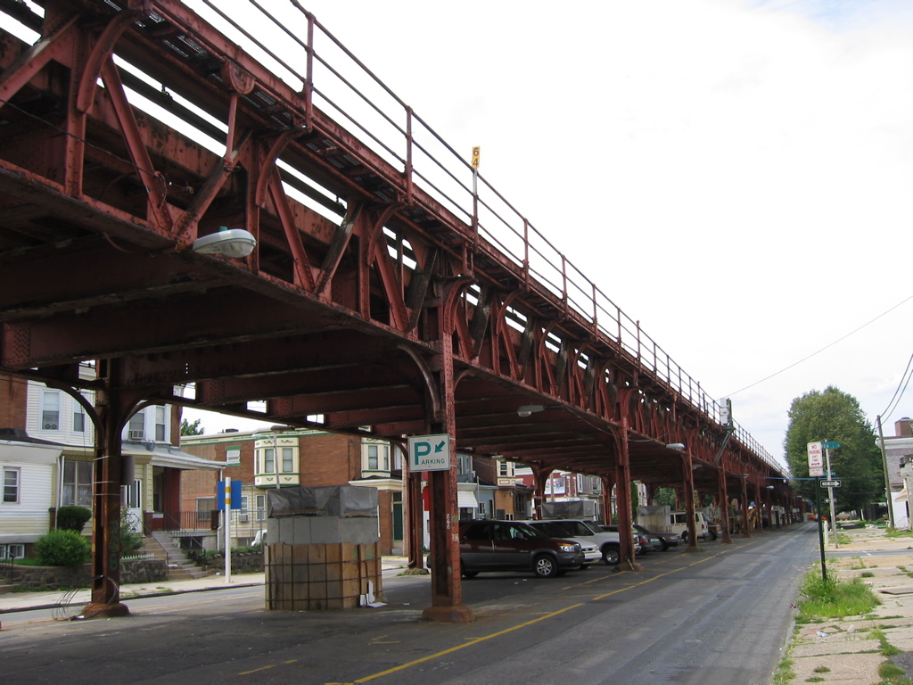 General view of the girder steel superstructure of the Market–Frankford Elevated Line in Philadelphia, Pennsylvania.